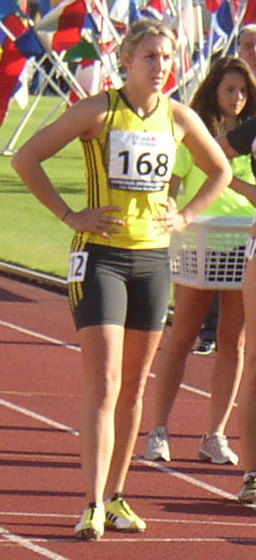 Athlete Isabel Le Roux of South Africa before her start in women's 200 m run at 17th edition of the Josef Odložil Memorial (EAA Premium Meeting, Na Julisce Stadium, Prague, Czech Republic, 14 June 2010). Le Roux finished sixth in 24.44 s.